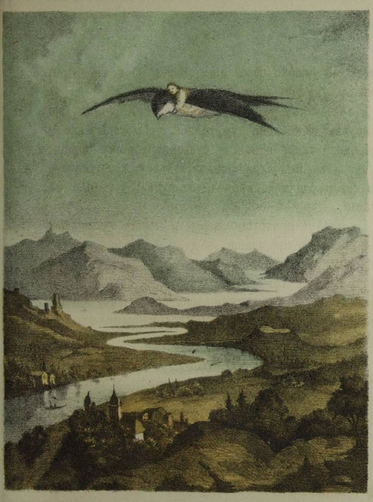 An illustration from Казки Андерсена з короткою ёго життєписью (1873) — first Ukrainian translation of the Hans Christian Andersen fairy tales.